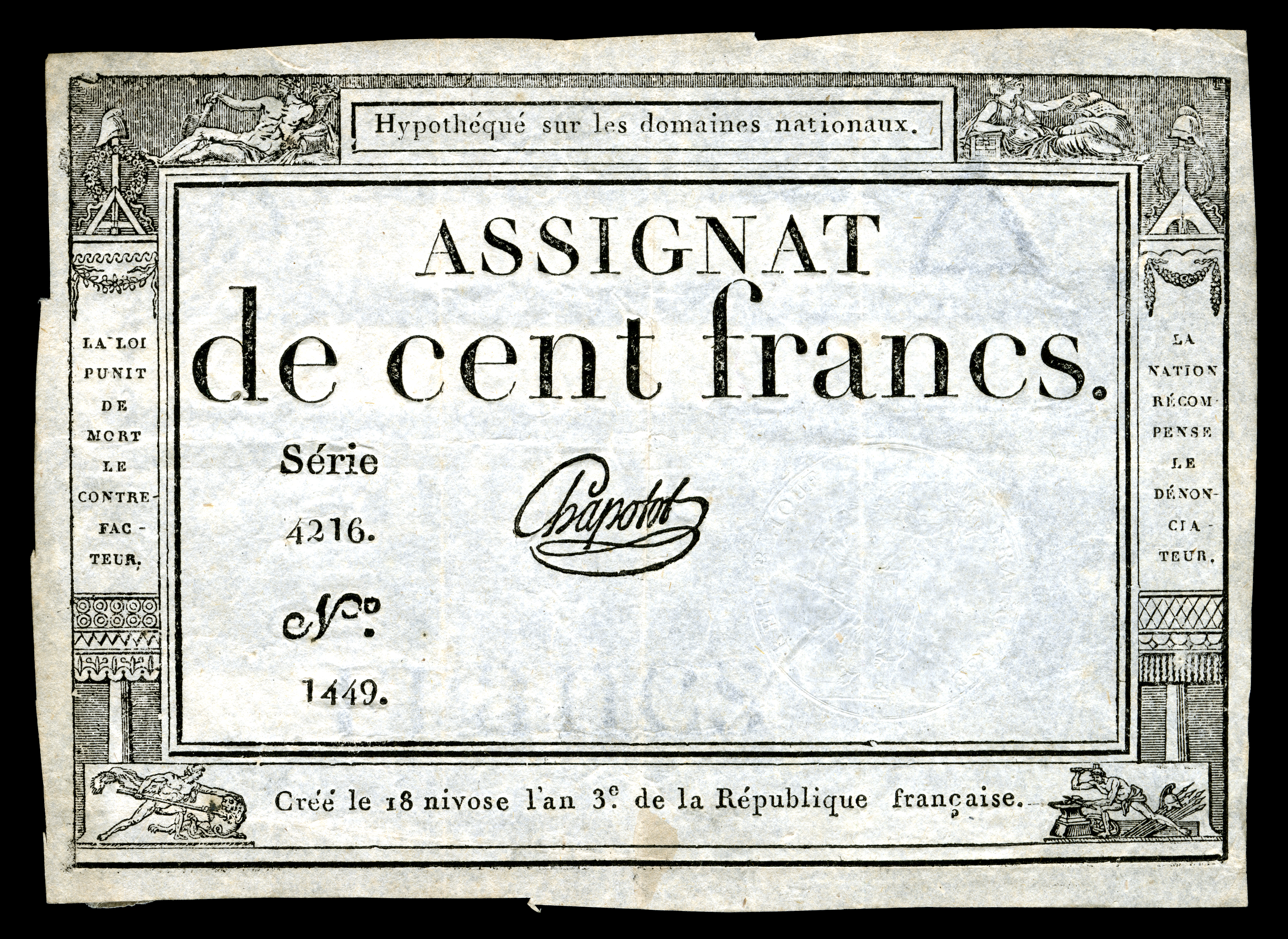 Early French banknote issue by République Française - Assignat for 100 francs, 1795 Franc Issue (Pick ref# A78).